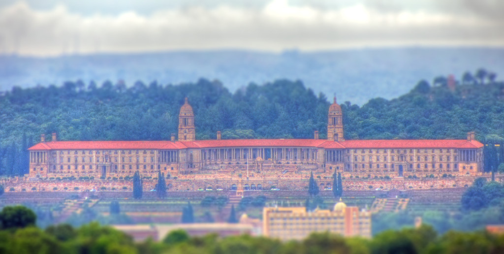 The Union Buildings, Pretoria, South Africa This media shows a South African Protected Site with SAHRA file reference 9/2/258/0067.